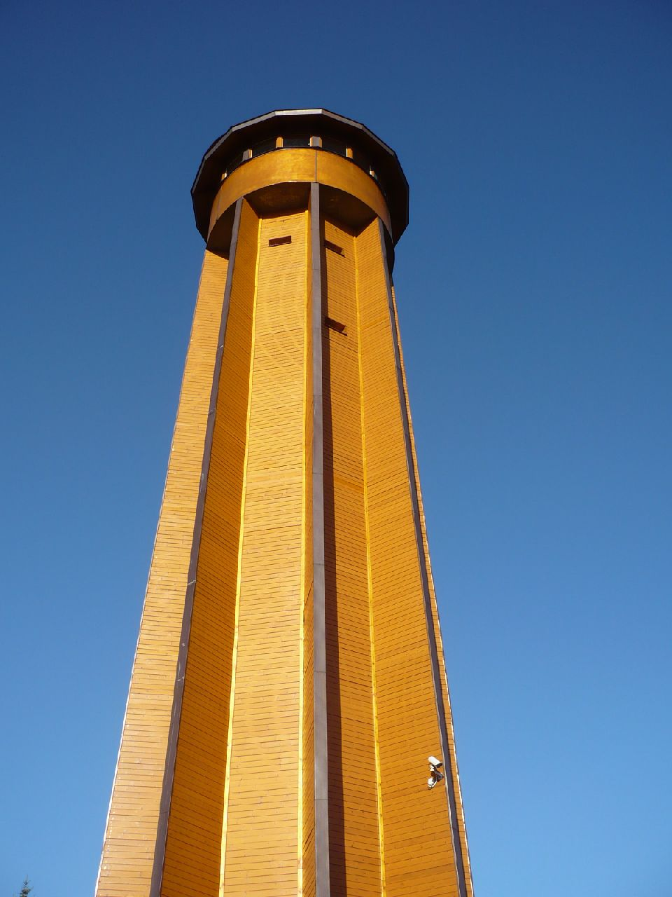 Krizova hora observation tower